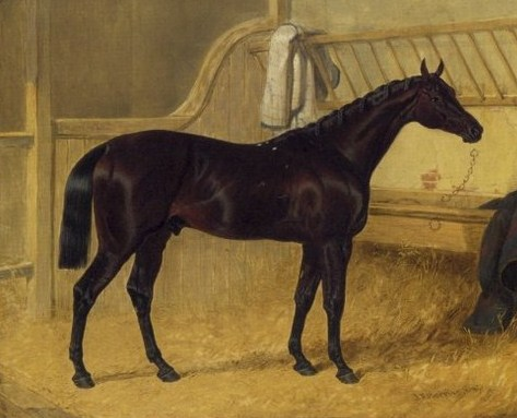 Charles XII Winner 1839 St. Leger, by John Frederick Herring Sr. (1795-1865). Artist dead for 147 years.